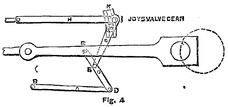 Joy Valve Gear Image courtesy of: The Project Gutenberg EBook of Scientific American Supplement, No. 458, October 11, 1884 This eBook is for the use of anyone anywhere at no cost and with almost no restrictions whatsoever. You may copy it, give it away or re-use it under the terms of the Project Gutenberg License included with this eBook or online at